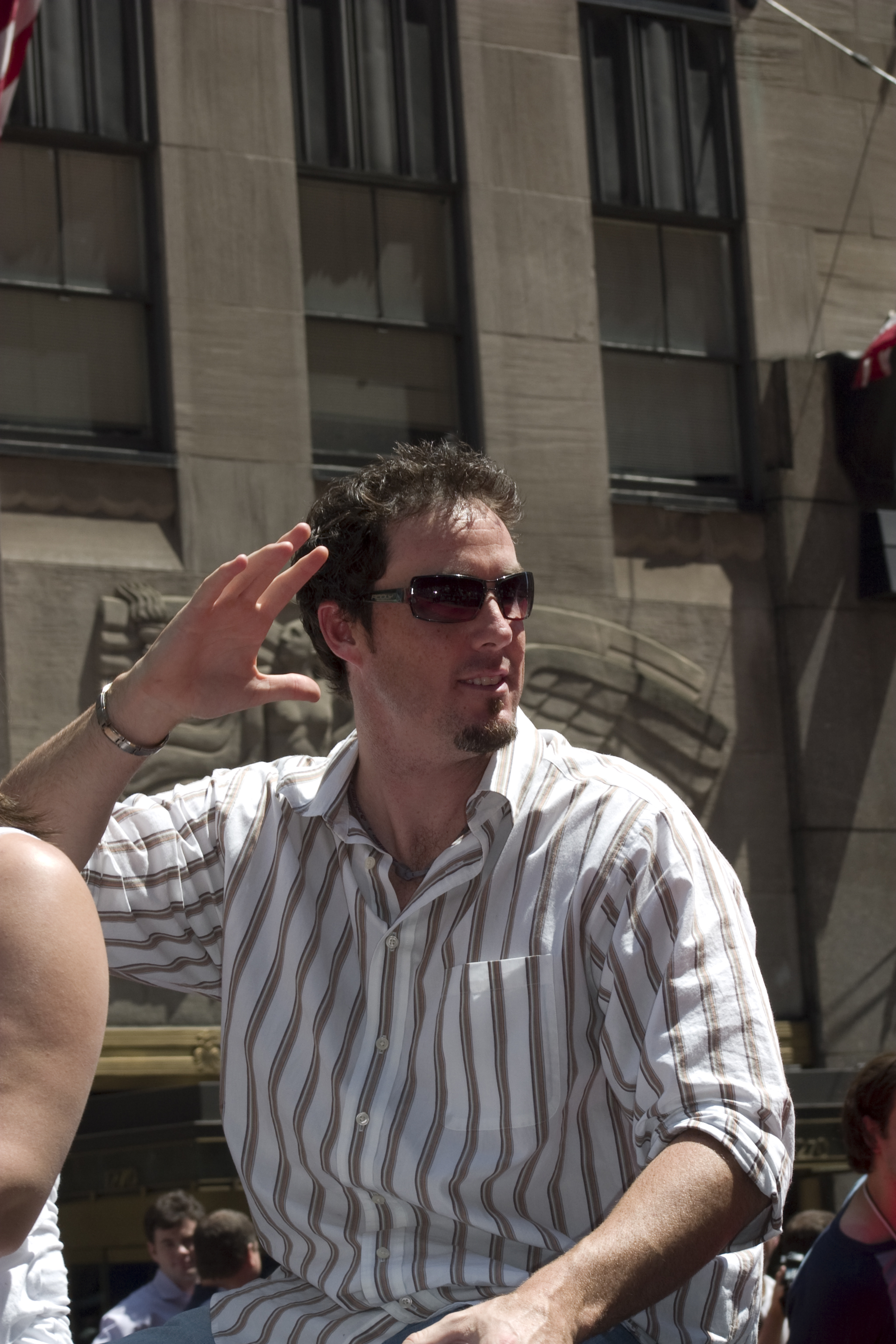 Baseball player Joe Nathan. © Rubenstein, photographer Martyna Borkowski